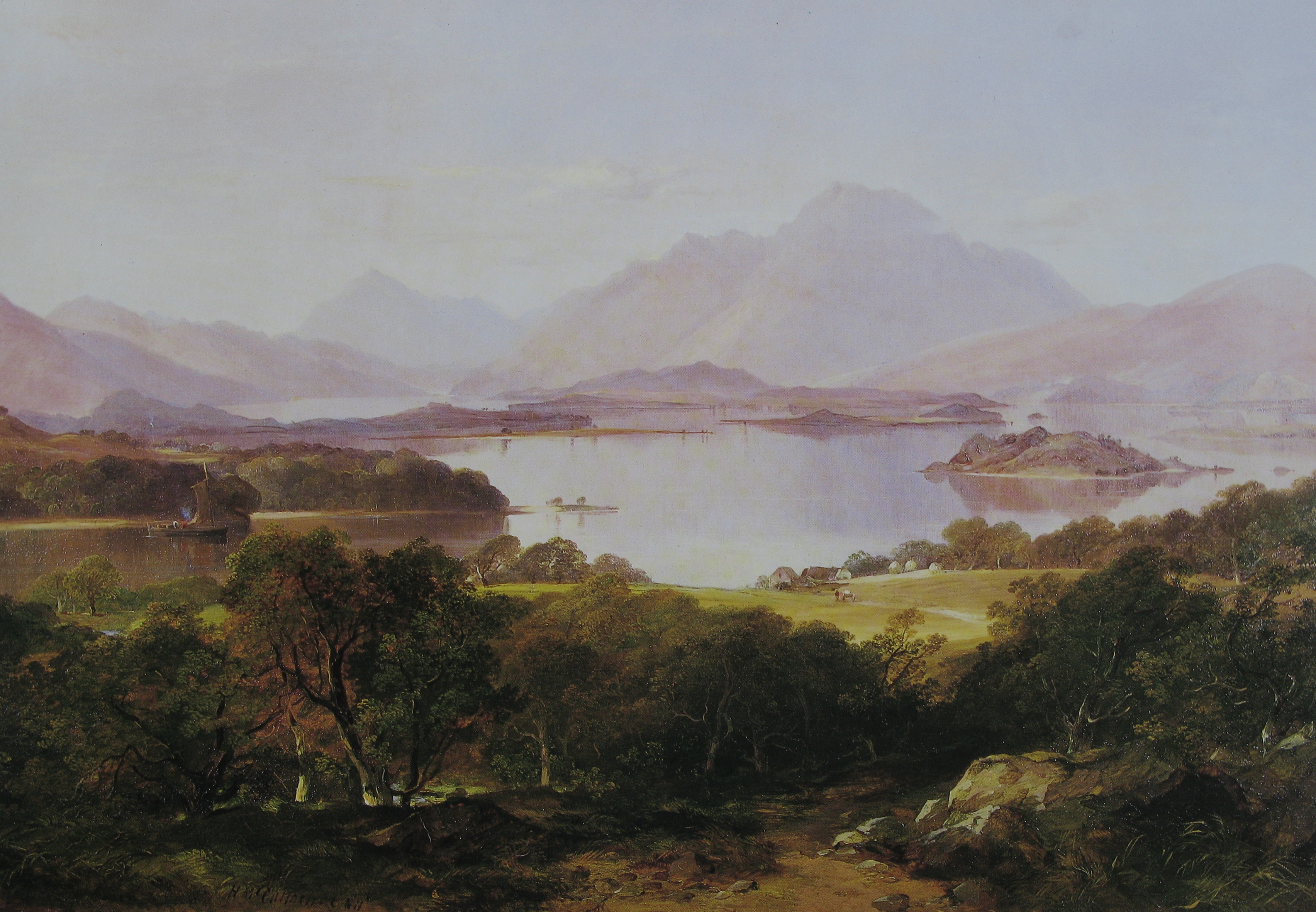 A View of Loch Lomond; Oil on Canvas, 76 x 127 cm